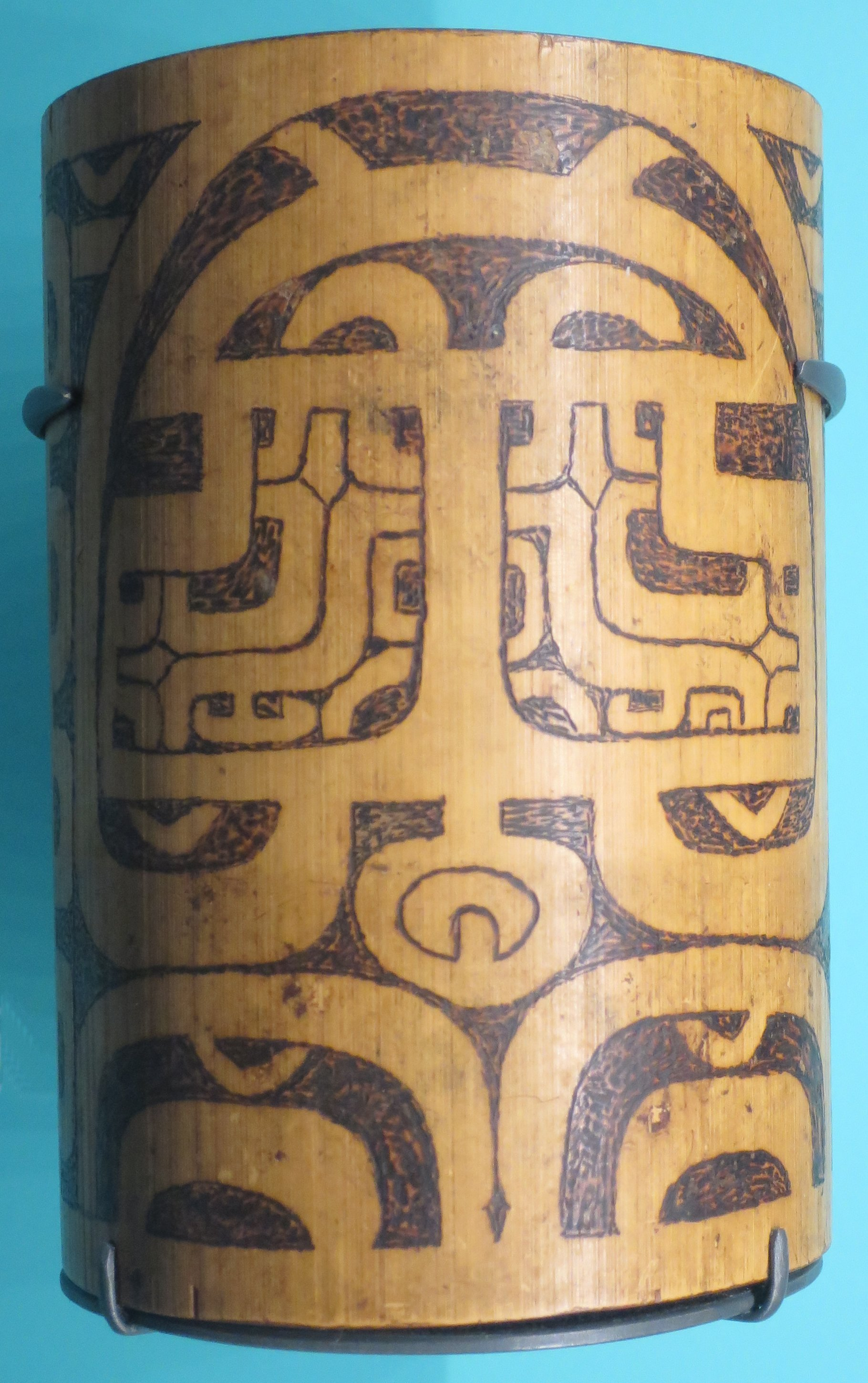 Container for tattoo tools, wood, Pua Mau Valley, Atuona, Hiva Oa, Marquesas Islands, Bishop Museum, accession B.05280